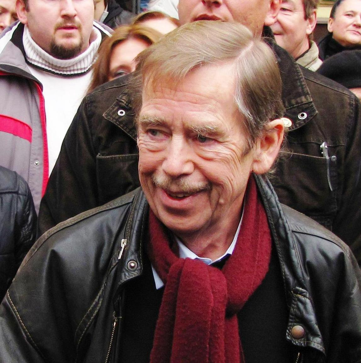 Václav Havel, Fmr.President of the Czech Republic at Velvet Revolution Anniversary in 2010 (Národní Street, Prague)